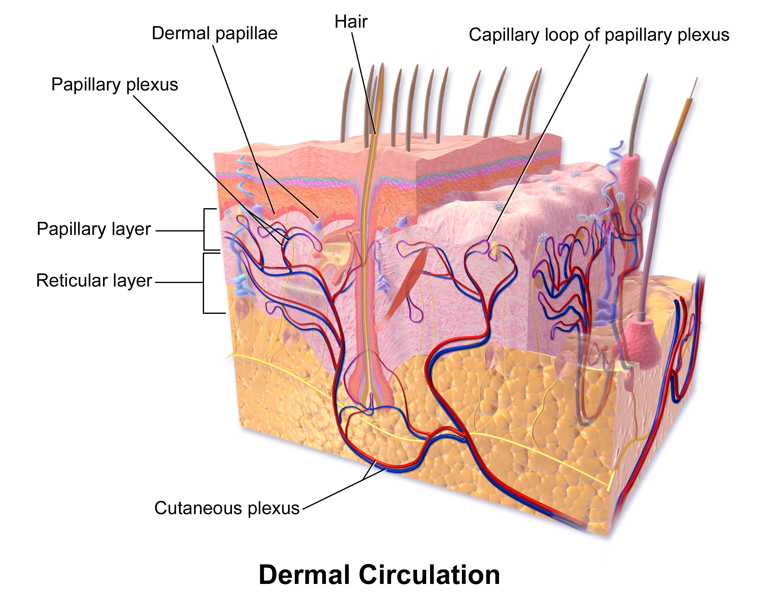 Dermal Circulation. See a related animation of this medical topic.